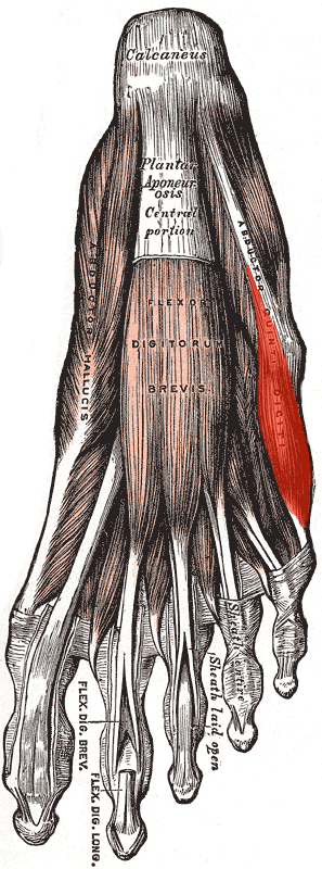 Abductor_digiti_minimi muscle of the foot